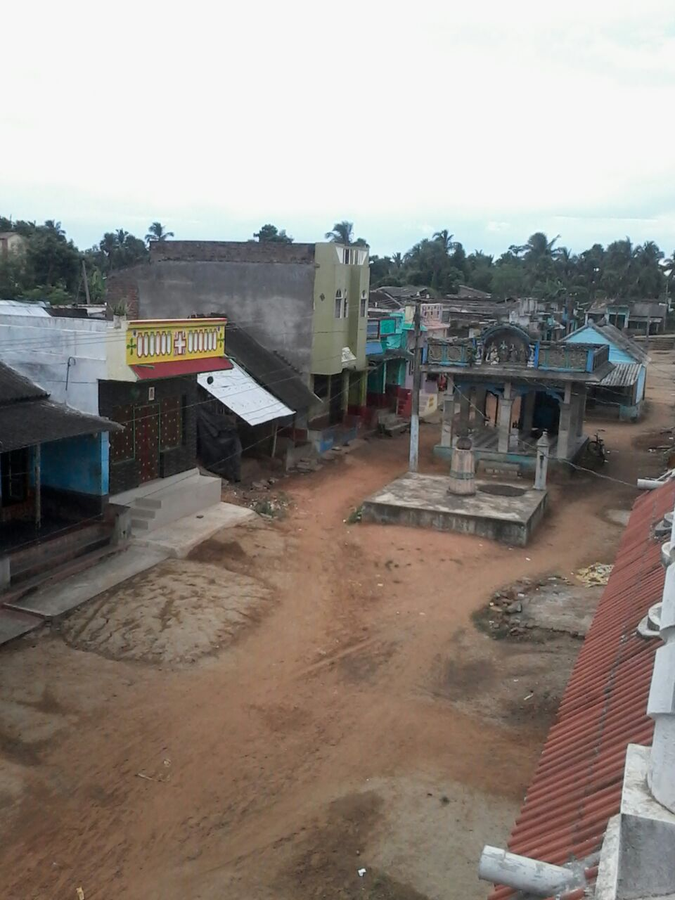 Bahadur Pentho Center Street